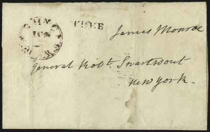 Letter from James Monroe to Robert Swartwout.jpg